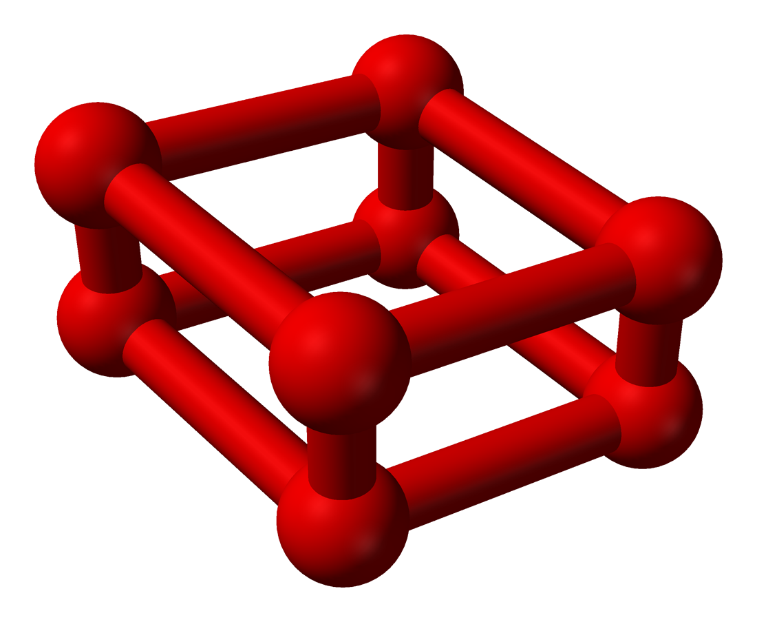 Ball-and-stick model of the octaoxygen molecule, O8, as found in solid ε-oxygen at 11.4 GPa. X-ray crystallographic data from Hiroshi Fujihisa, Yuichi Akahama, Haruki Kawamura, Yasuo Ohishi, Osamu Shimomura, Hiroshi Yamawaki, Mami Sakashita, Yoshito Gotoh, Satoshi Takeya, and Kazumasa Honda (2006-08-26). "O8 Cluster Structure of the Epsilon Phase of Solid Oxygen". Phys. Rev. Lett. 97: 085503. Image generated in Accelrys DS Visualizer.